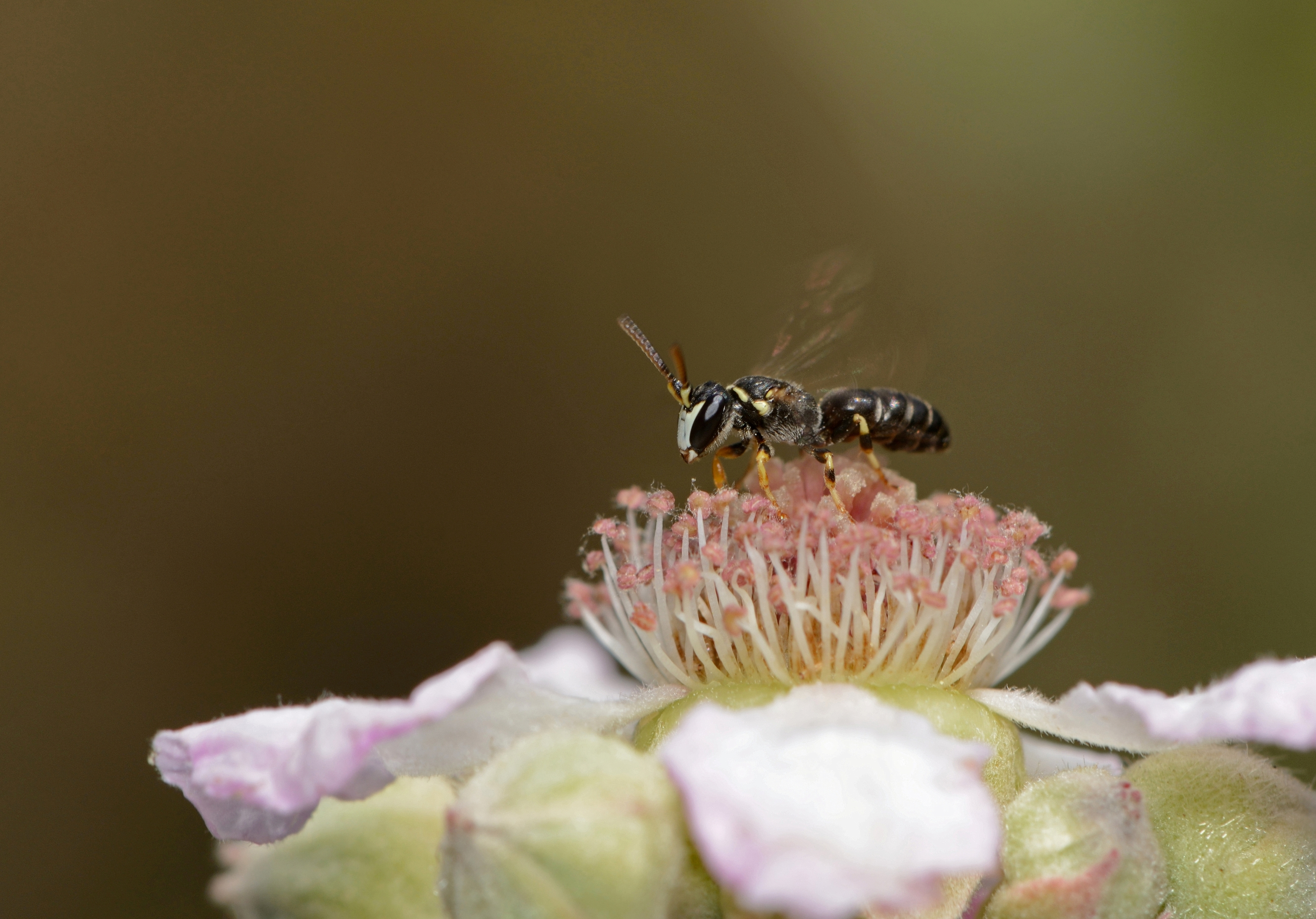 Hylaeus rubicola, male standing on a Rubus sanguineus flower, 'En Kedem, Mount Carmel, Israel, September 11, 2012.